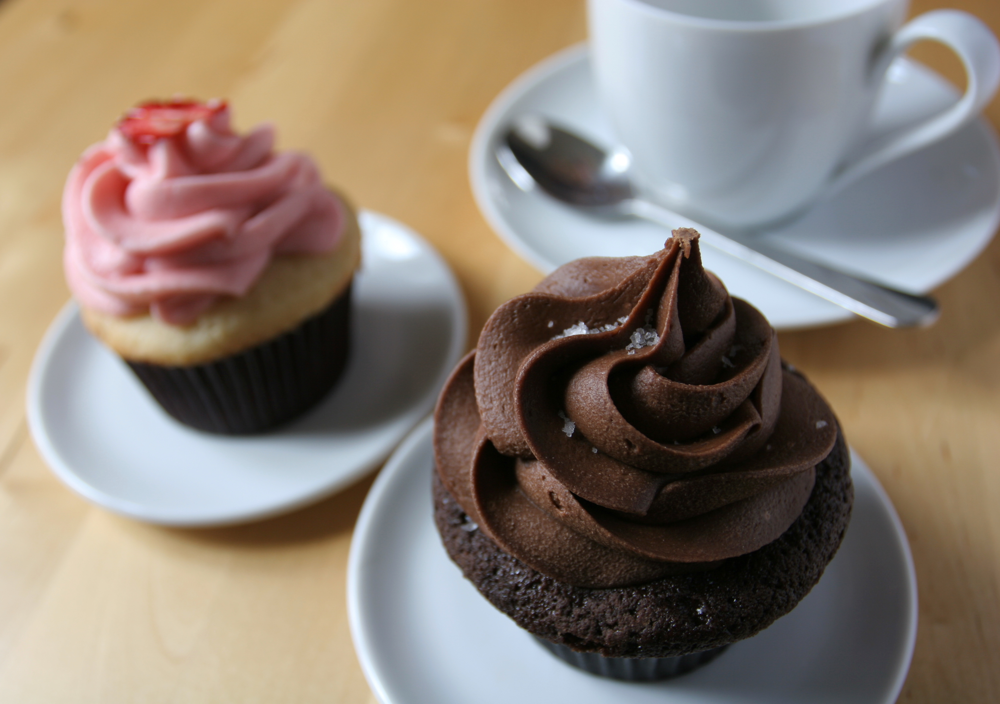 Home-made cupcakes, one with dark chocolate with sea-salt and one with strawberry flavour, on table